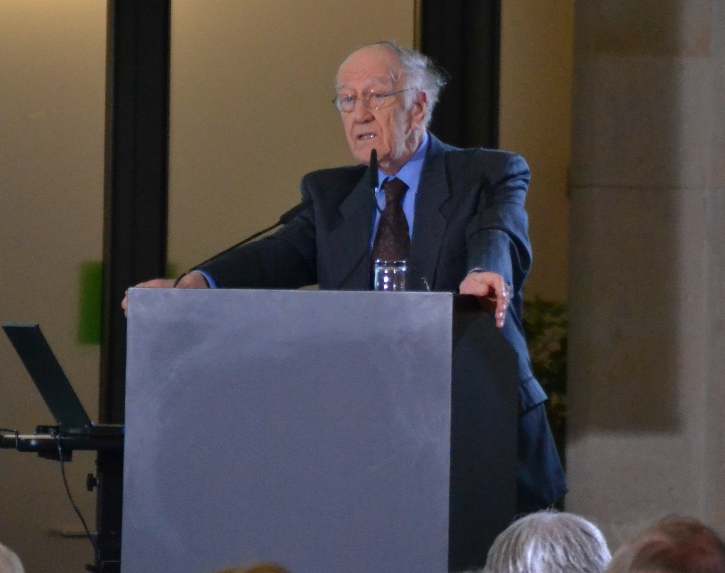 Academies day 2015 at the Berlin-Brandenburg Academy of Science in Berlin; Theme: "Old world today: Perspectives and threats". Image: Historian of ancient history Professor Christian Meier.